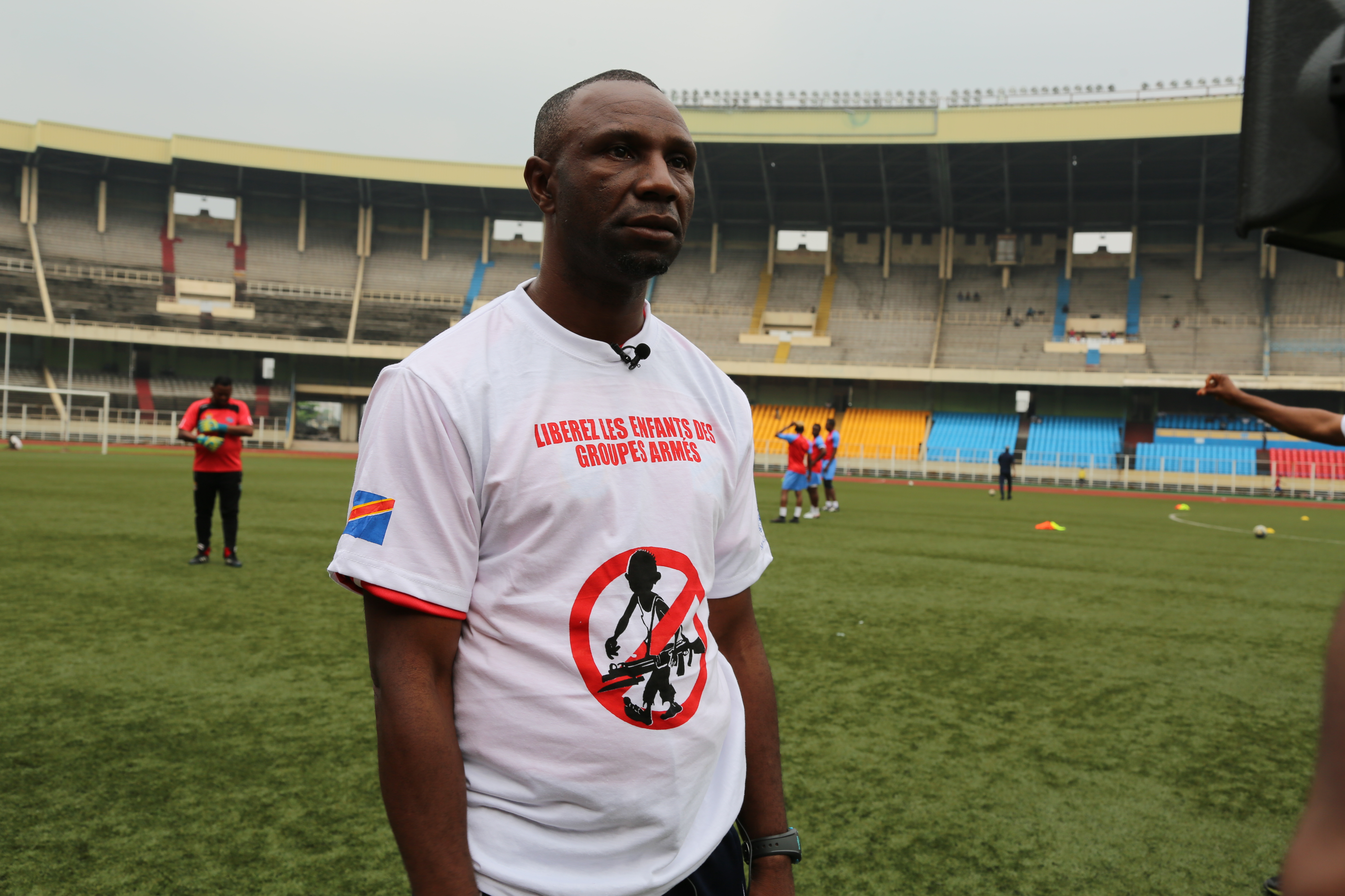 Florent Ibengé participating in a MONUSCO Child Protection Unit campaign against recruitment of Child soldiers.